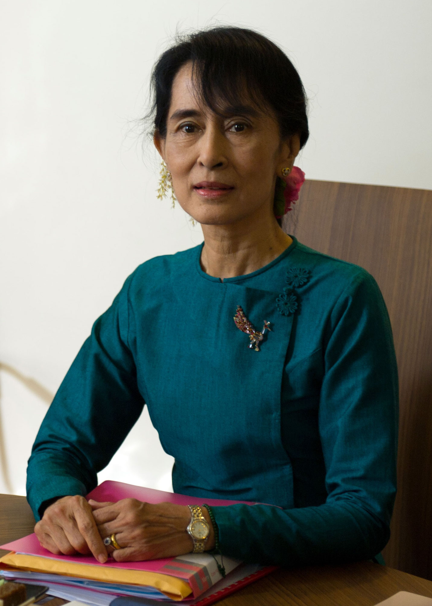 U.S. Secretary of State Hillary Rodham Clinton visits Daw Aung San Suu Kyi at her house in Rangoon, Burma, on December 2, 2011. [State Department photo/ Public Domain]